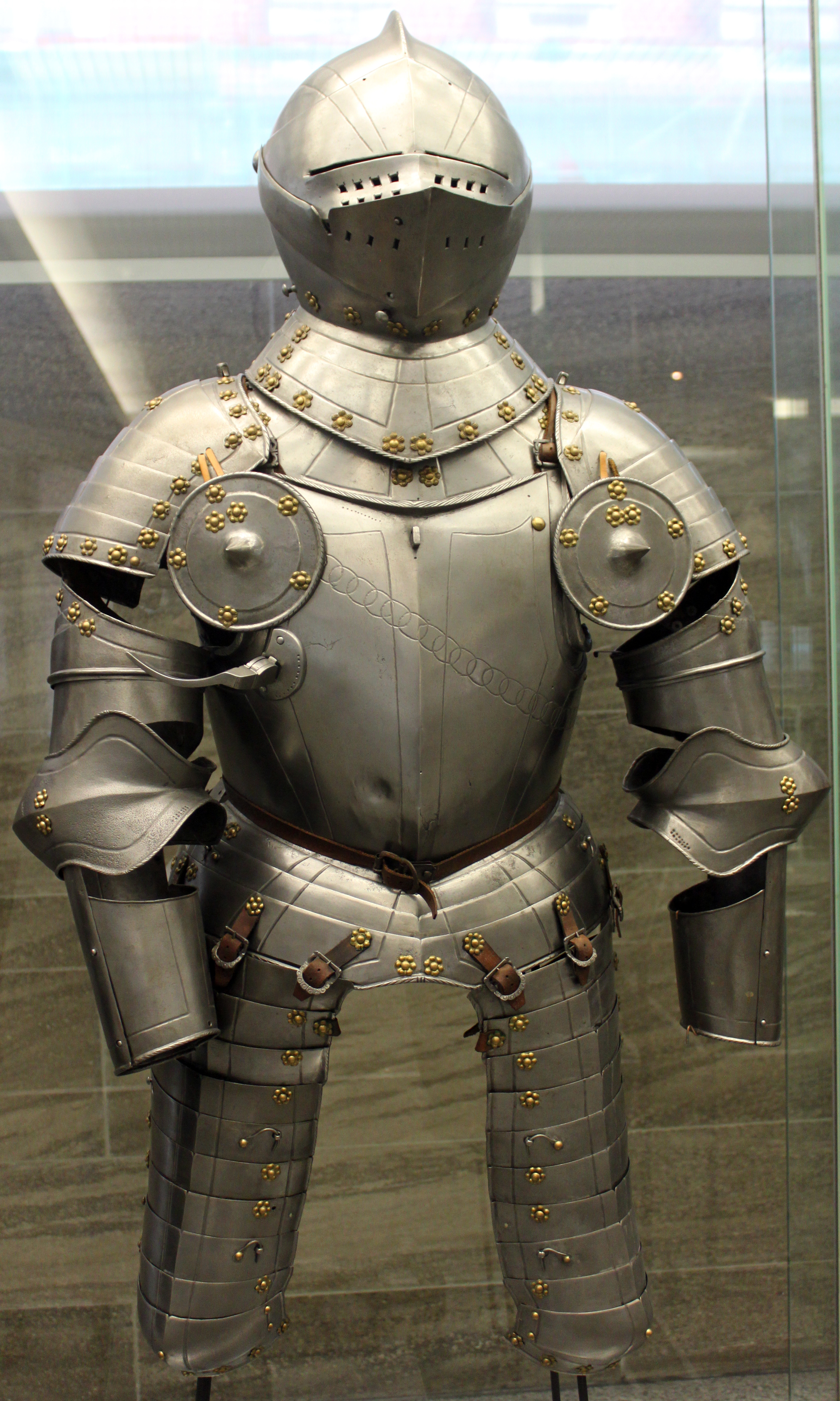 Officers plate armour; Braunschweig, 1550; Germanic National Museum in Nuremberg